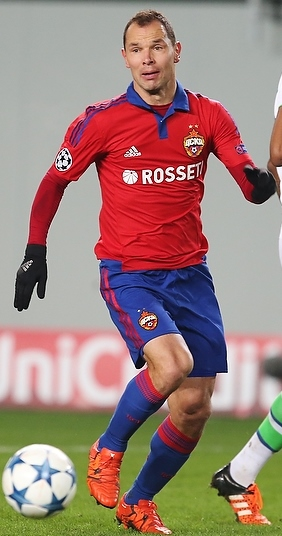 Sergei Ignashevich